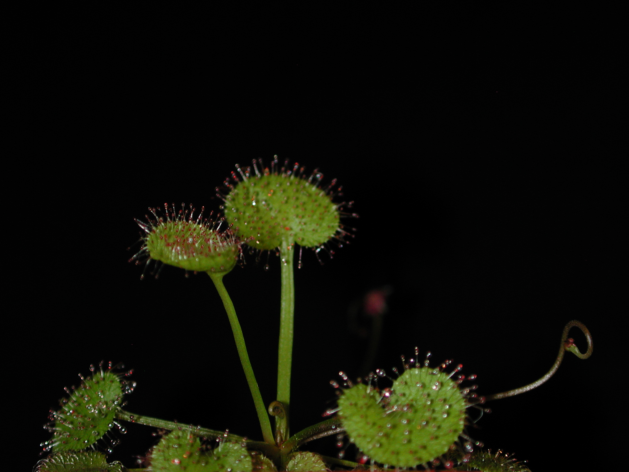 Drosera prolifera growing in culture